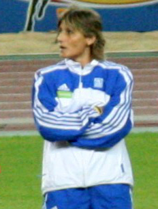 World Athletics Championships 2007 in Osaka - Participants in the women*s javelin throw final: Savva Lika